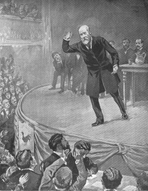 Original Caption: Henry George just before his death denouncing bossism. Calling Croker "a thief and a corruptionist" and Platt "a blackmailer" Appeared in November 1897 issue of The Illustrated American